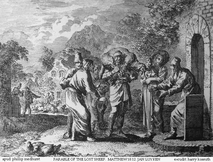 An etching by Jan Luyken illustrating Matthew 18:12 in the Bowyer Bible, Bolton, England.